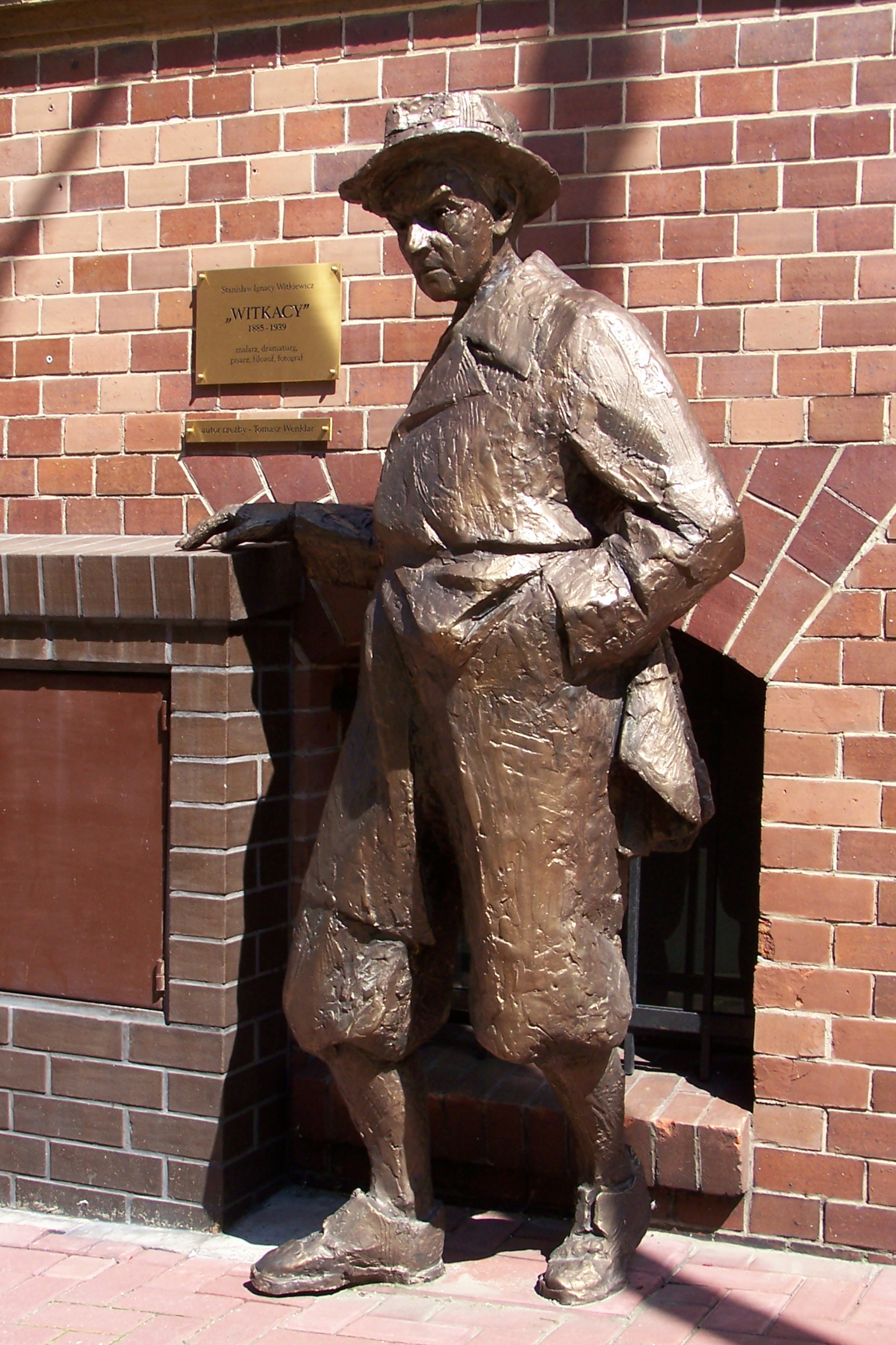 Witkacy Statue in Katowice.